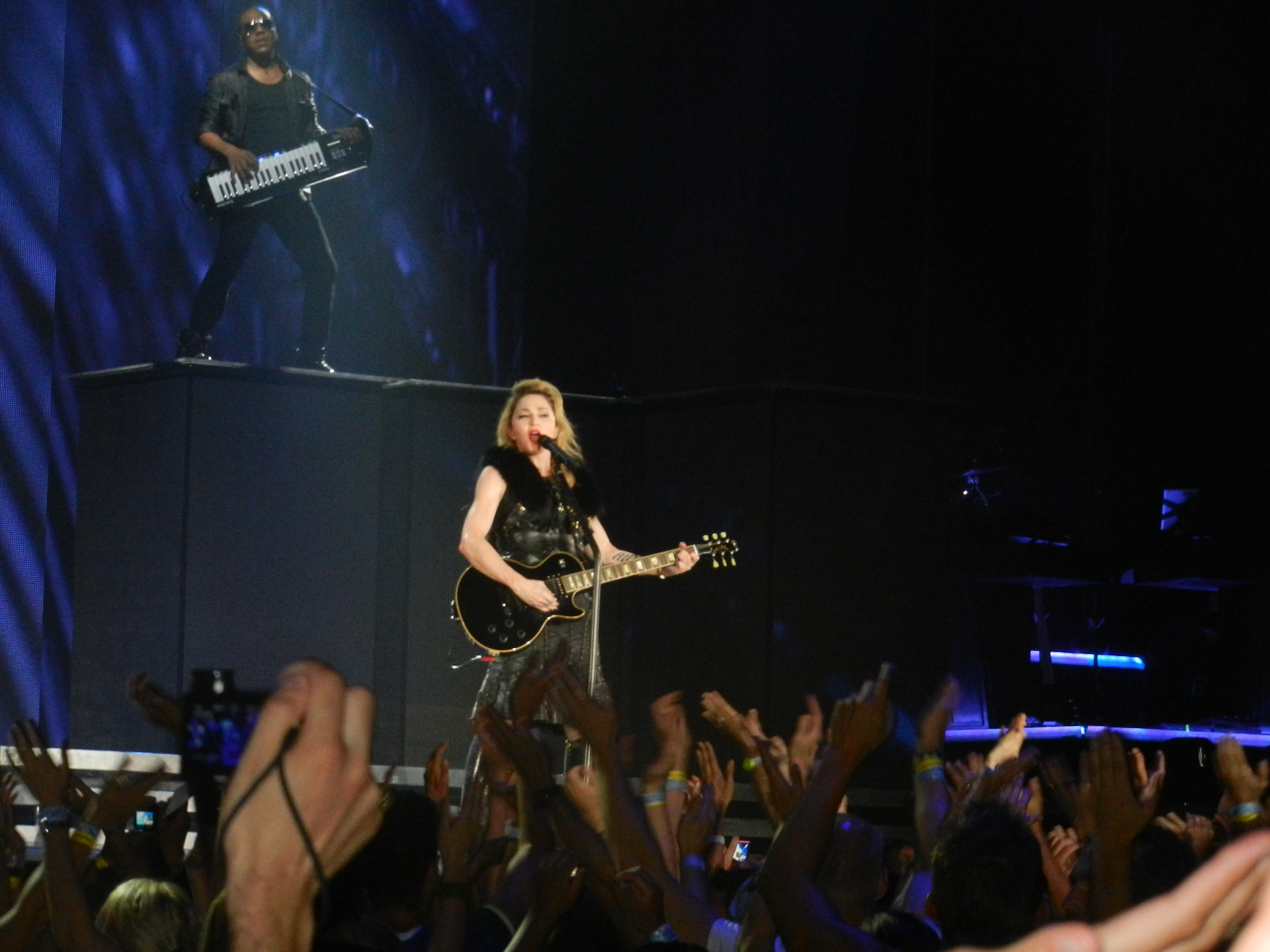 MDNA concert on Switzerland